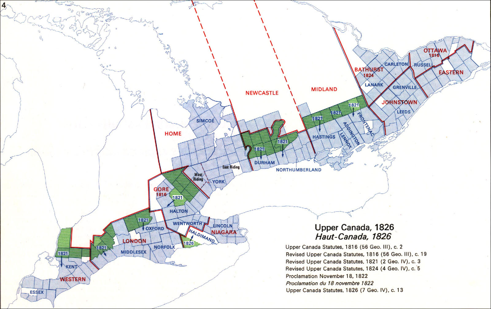 A map of Upper Canada